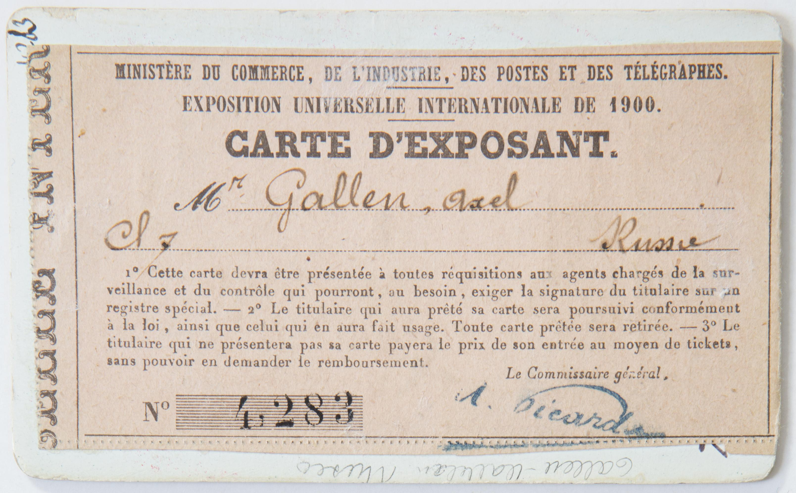 Axel Gallénin näyttelilleasettajakortin kääntöpuoli Pariisin maailmannäyttelystä vuodelta 1900. Gallén osallistui vuoden 1900 Pariisin maailmannäyttelyn Suomen paviljonkiin maalauksilla, grafiikalla ja erilaisilla taiteellisilla suunnittelutöillä. Edellisen vuoden keväällä Suomen Käsityön ystävät ja Louis Sparren johtama Iris-tehdas tilasivat häneltä sisustussuunnitelmat paviljongin suomalaistyylistä huonetta (Iris-huonetta) varten. Huoneen esineistöön kuului mm. Liekki-ryijy. Samaan aikaan Gallén suunnitteli paviljongin keskushalliin kattofreskot Ilmarinen kyntää kyisen pellon, Sammon taonta, Sammon puolustus sekä Pakanuus ja kristinusko. Helmikuussa 1900 hän lähti Pariisiin ja toteutti freskot työryhmineen. Suomen paviljonki oli menestys, ja sen maalaukset ja tekstiilit palkittiin kultamitalilla, huonekalut ja grafiikka hopeamitalilla. Freskot tuhoutuivat paviljongin purkamisen yhteydessä eikä Gallén maalannut niitä uudelleen ennen kuin muunneltuina Kansallismuseoon vuonna 1928. paikka: ajoitus: 1900 tekijä: objektin mitat: 104x63mm tekniikka: merkintöjä: inventointinumero: Kot. 1.a/37 kokoelma: Akseli Gallen-Kallelan valokuvakokoelma tutki lisää / explore further: Tiedätkö lisää tästä kuvasta? Kerro meille! Do you have information on this photo? Let us know!